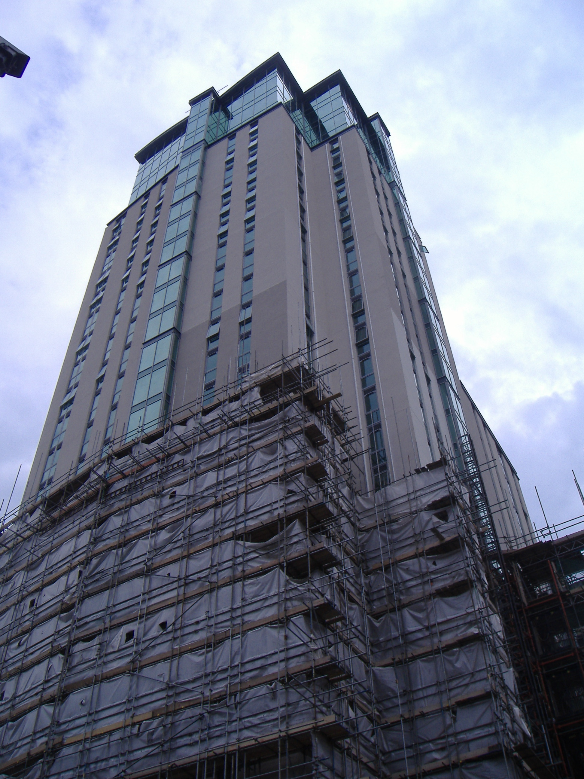 Scaffolding on the Orion Building coming down after several years of construction in Birmingham, England.